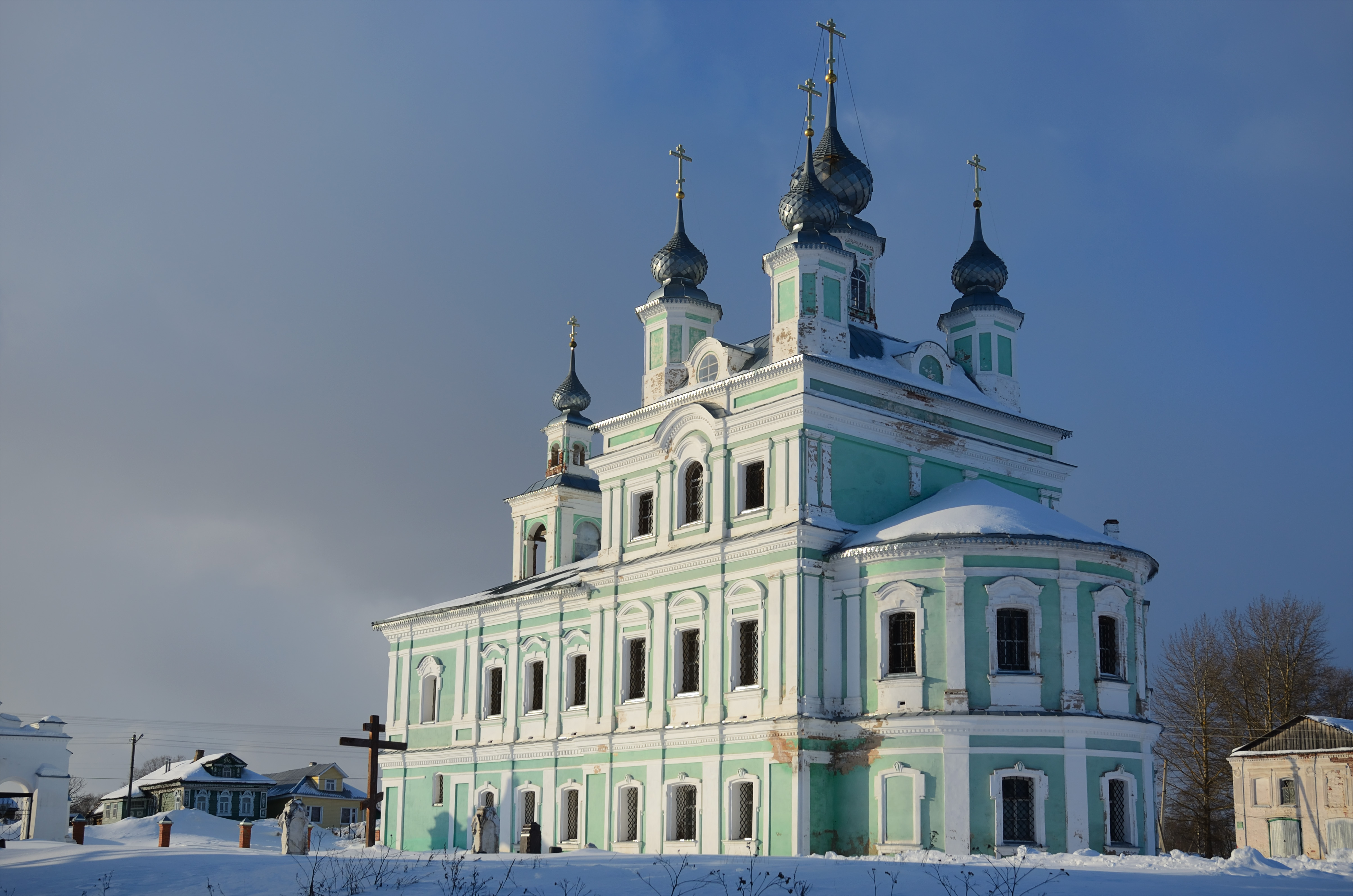 Church of Life-Giving Trinity in the village of Voschazhnikovo, Yaroslavl oblast, Russian Federation